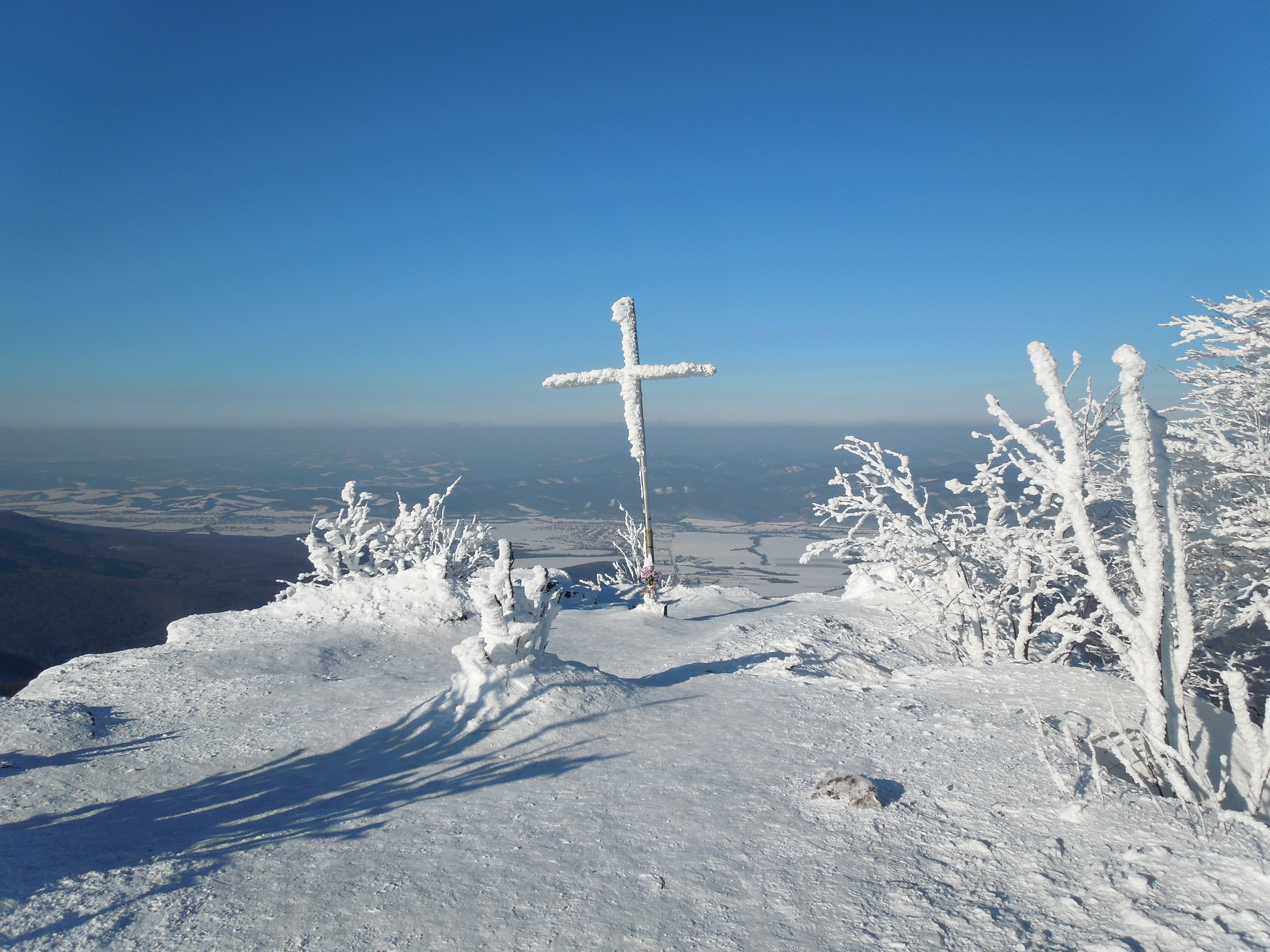 Sninský kameň in winter This is a photography of Natura 2000 protected area with ID SKUEV0209